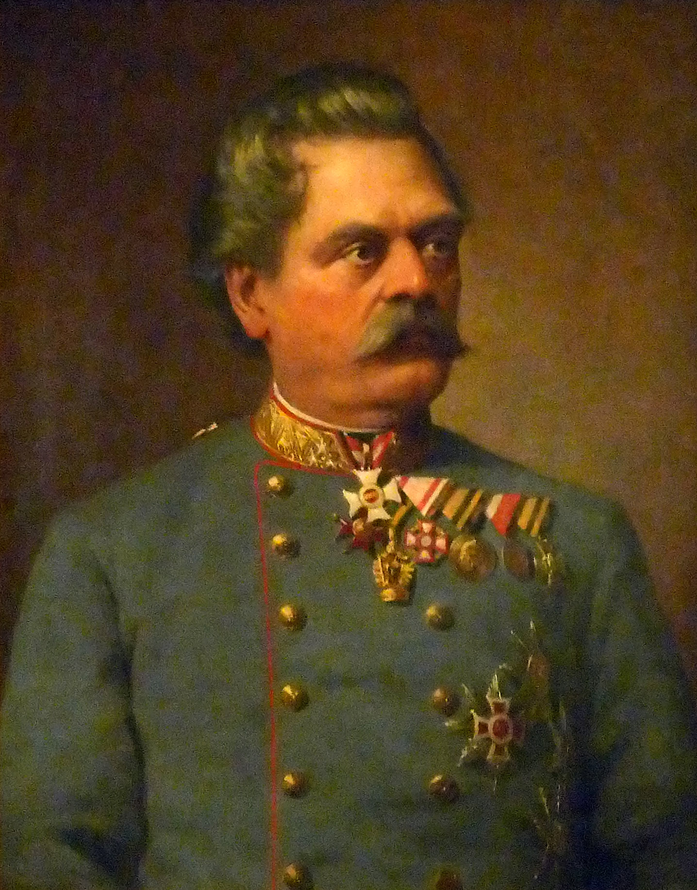 Franz Kuhn Freiherr von Kuhnenfeld (1817-1896), Austrian general and Minister of War. Heeresgeschichtliches Museum Native nameHeeresgeschichtliches MuseumLocationViennaCoordinates48° 11′ 07″ N, 16° 23′ 15″ E Established1856Website control VIAF: 149726120 ISNI: 0000 0001 2182 8171 LCCN: n50055593 GND: 2006452-4 SUDOC: 028009010 WorldCat